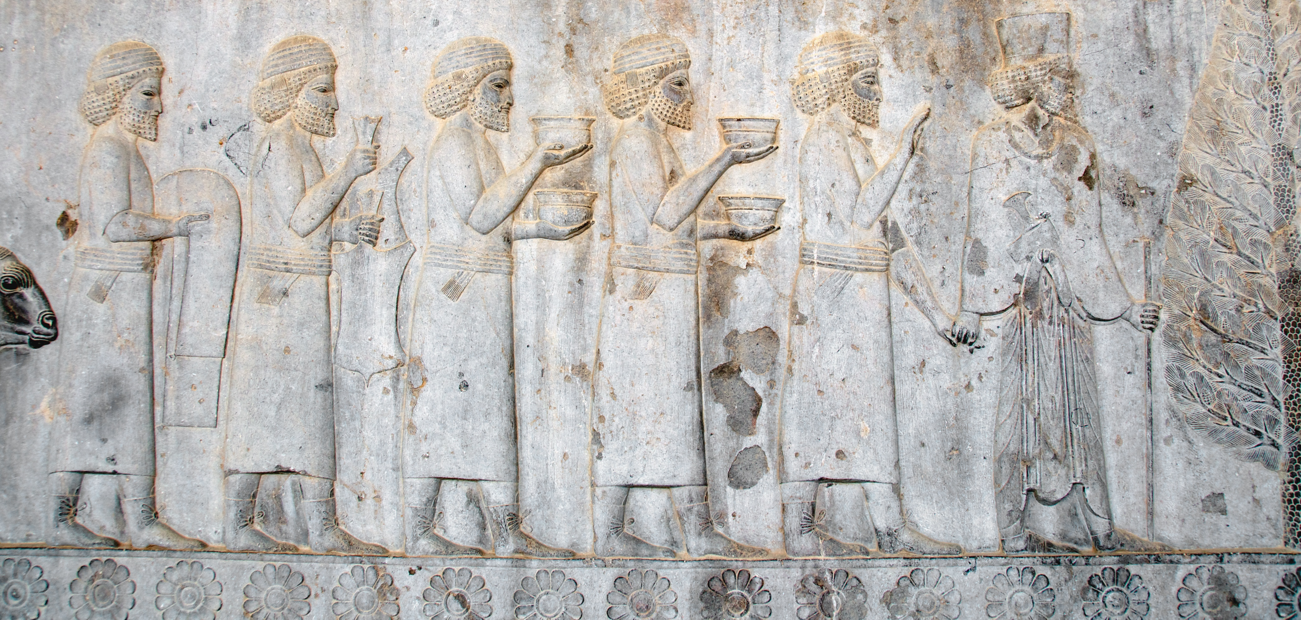 According to the Lonely Planet guide to Iran, "Most impressive of all, however, and among the most impressive historical sights in all of Iran, are the bas-reliefs of the Apadana Staircase on the eastern wall [of the Apadana Palace]." "The panels at the southern end [of the Apadana Staircase] are the most interesting, showing 23 delegations bringing their tributes to the Achaemenid king." "This rich record of the nations of the time ranges from the Ethiopians in the bottom left center, through a climbing pantheon of, among other peoples, Arabs, Thracians, Indians, Parthians and Cappadocians, up to the Elamites and Medians at the top right." According to Donald N. Wilber's book Persepolis, The Archaeology of Parsa, Seat of the Persian Kings, this panel "depicts the Suguda (Sogdians), who number seven, have very distinctive footwear, and offer cups, a length of cloth, an animal skin, and a pair of rams." Persepolis, Iran